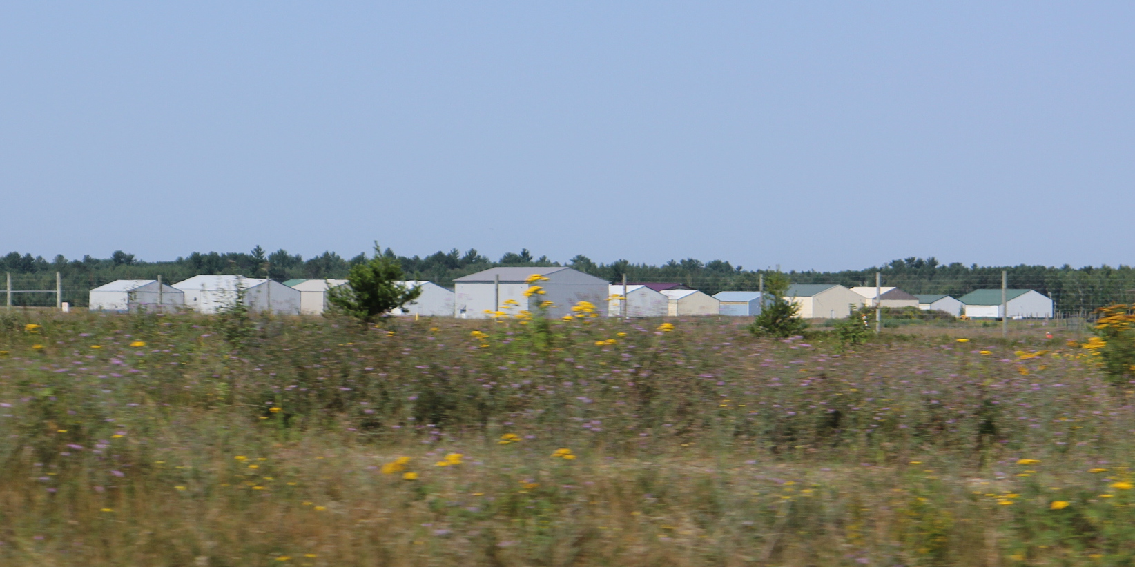 the airport buildings for Eagle River Union Airport at Eagle River, Wisconsin.